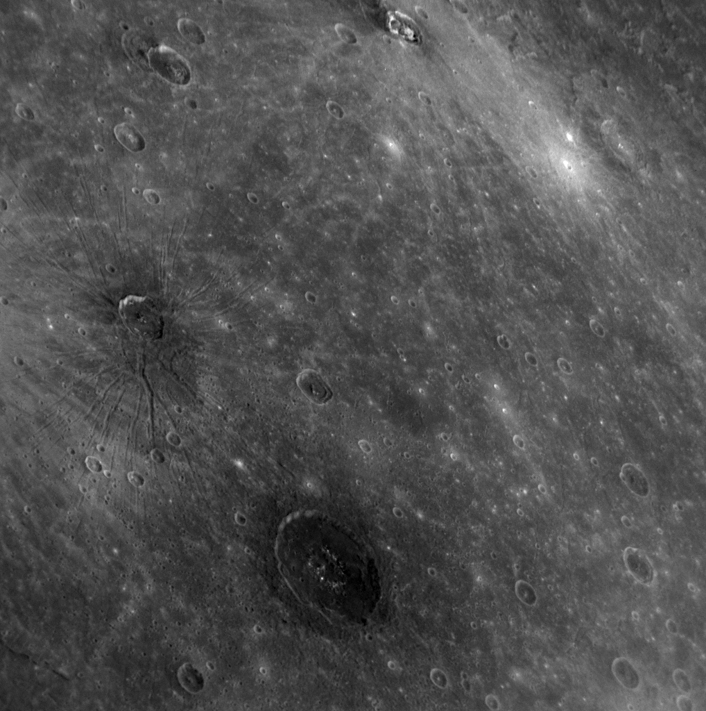 Image Mission Elapsed Time (MET): 108828540 Instrument: Narrow Angle Camera (NAC) of the Mercury Dual Imaging System (MDIS) Resolution: 520 meter/pixel (0.32 miles/pixel) Scale: This image shows a scene about 530 kilometers (330 miles) across Spacecraft Altitude: 20,300 kilometers (12,600 miles) Of Interest: Recently named for the French photographer Eugène Atget, Atget crater, seen in the middle of the lower portion of this NAC image, is distinctive on Mercury's surface due to its dark color. Atget crater is located within Caloris basin, near Apollodorus crater and Pantheon Fossae, which are also both visible in this image to the northwest of Atget. The dark color of the floor of Atget is in contrast to other craters within Caloris basin that exhibit bright materials on their floors, such as the craters Kertész and Sander. Other craters on Mercury, such as Basho and Neruda, have halos of dark material but the dark material does not cover the crater floors. Understanding the variety of bright and dark materials associated with different craters will provide insight into Mercury's composition and the processes that acted on Mercury's surface.